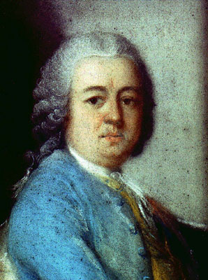 Depicted person: Johann Ludwig Bach